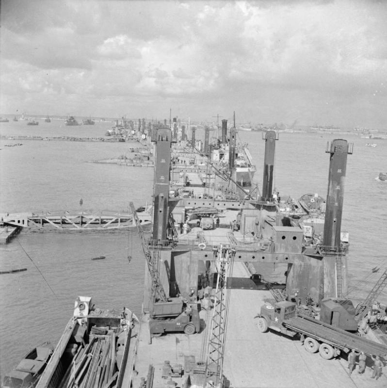 The British Army in North-west Europe 1944-45 General view of the LST pier at the Mulberry artificial harbour, Arromanches, September 1944.